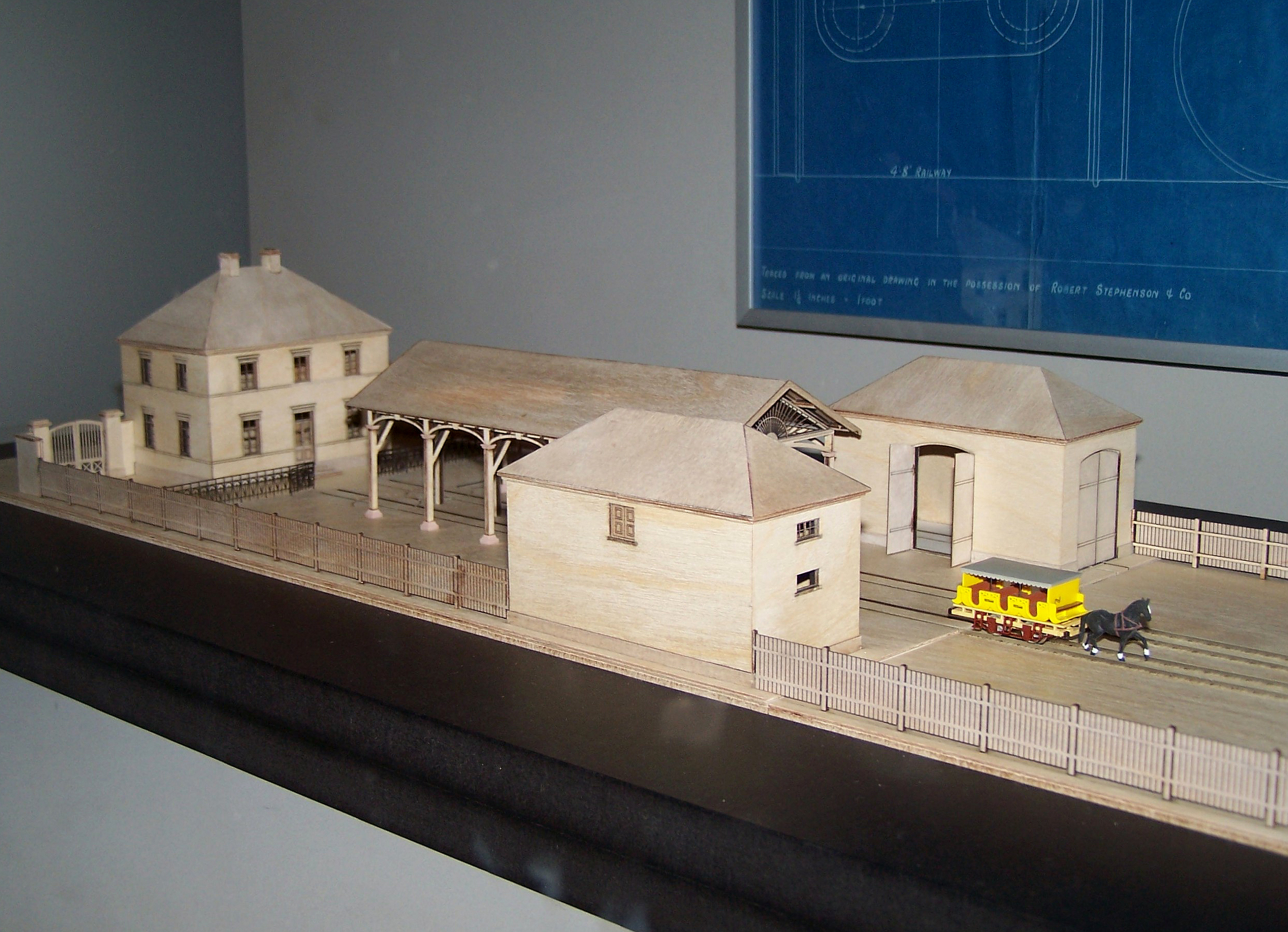 Model of the railway station of the Bavarian Ludwig Railway in Fürth, built in 1835, in the Nuremberg Transport Museum (web page of the Nuremberg Transport Museum), model planned and built by Claudius Karlinger (web page of Claudius Karlinger Dipl. Ing. FH)